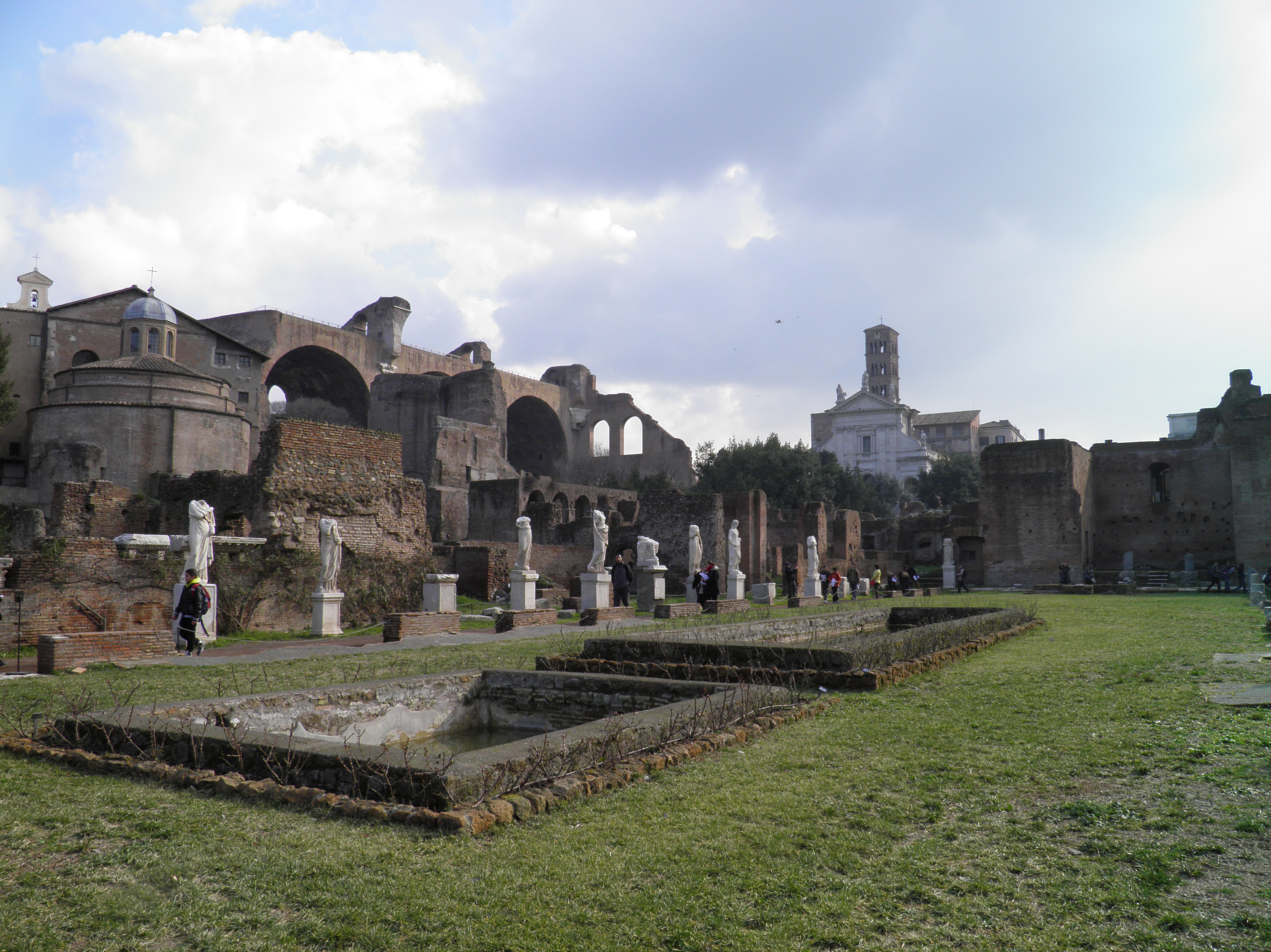 The peristyle garden court of the House of the Vestal Virgins (Atrium Vestae) with a double pool, Upper Via Sacra, Rome